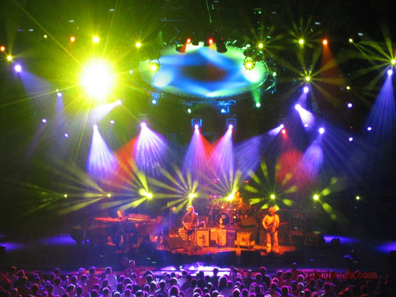 Photo taken by in July 2003 at Alpine Valley in East Troy, Wisconsin Adapted from Wikipedia US/public domain